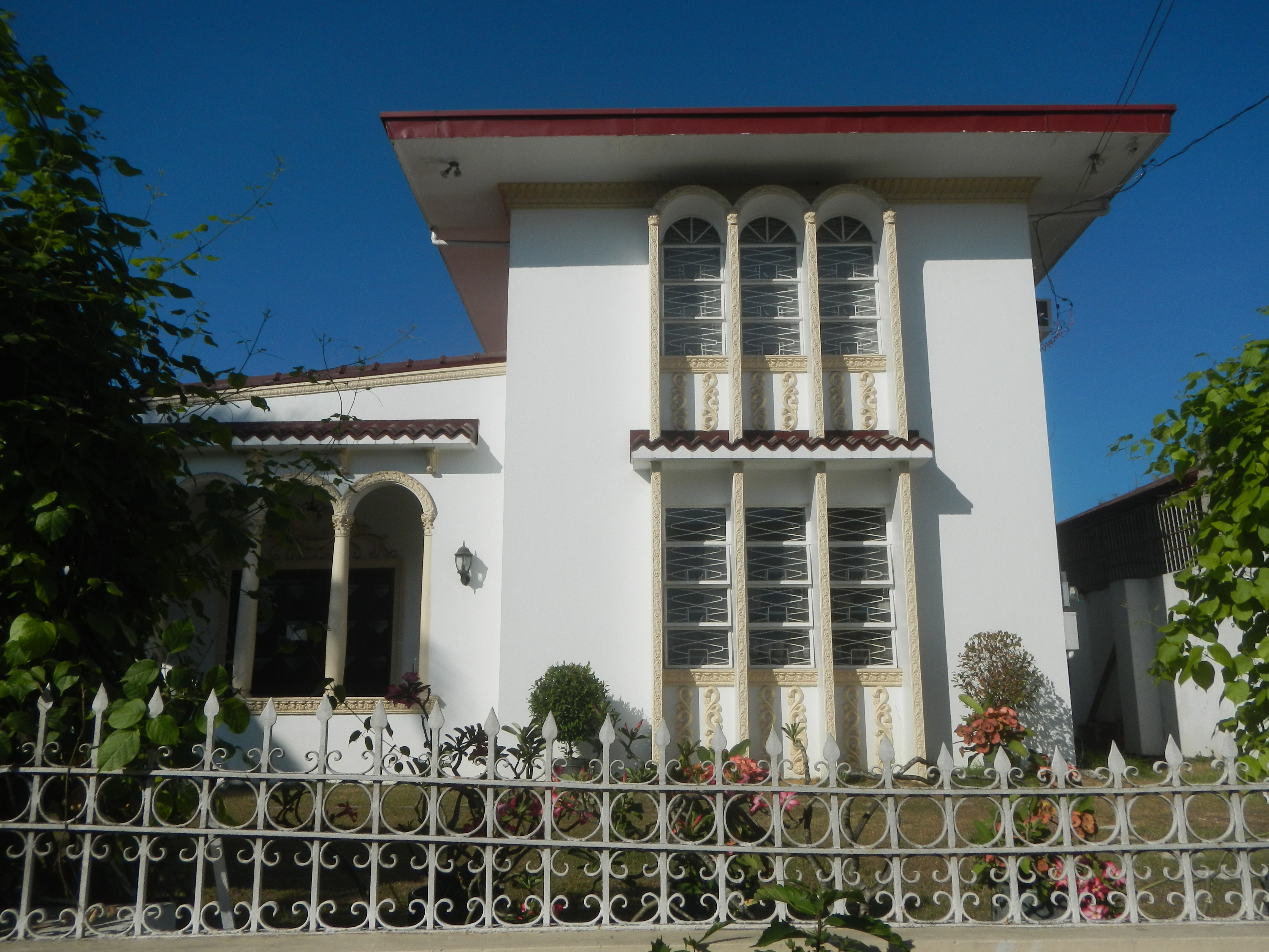 At the foot of Mount Makiling Barangays San Pedro and Poblacion 1, 2, 3 & 4, Santo Tomas, Batangas 14° 6' 33" North, 121° 8' 31" Santo Tomas, Batangas St. Thomas Academy (Santo Tomas, Batangas) San Antonio 14° 6' 33" North, 121° 8' 31" Polytechnic University of the Philippines Santo Tomas Old houses in Santo Tomas, Batangas from and along Maharlika Highway (Santo Tomas, Batangas section) Pan-Philippine Highway N1 of the nation's Philippine highway network (Note: Judge Florentino Floro, the owner, to repeat, Donor Florentino Floro of all these photos hereby donate gratuitously, freely and unconditionally Judge Floro all these photos to and for Wikimedia Commons, exclusively, for public use of the public domain, and again without any condition whatsoever).